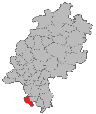 Map of the district court Lampertheim in Hesse